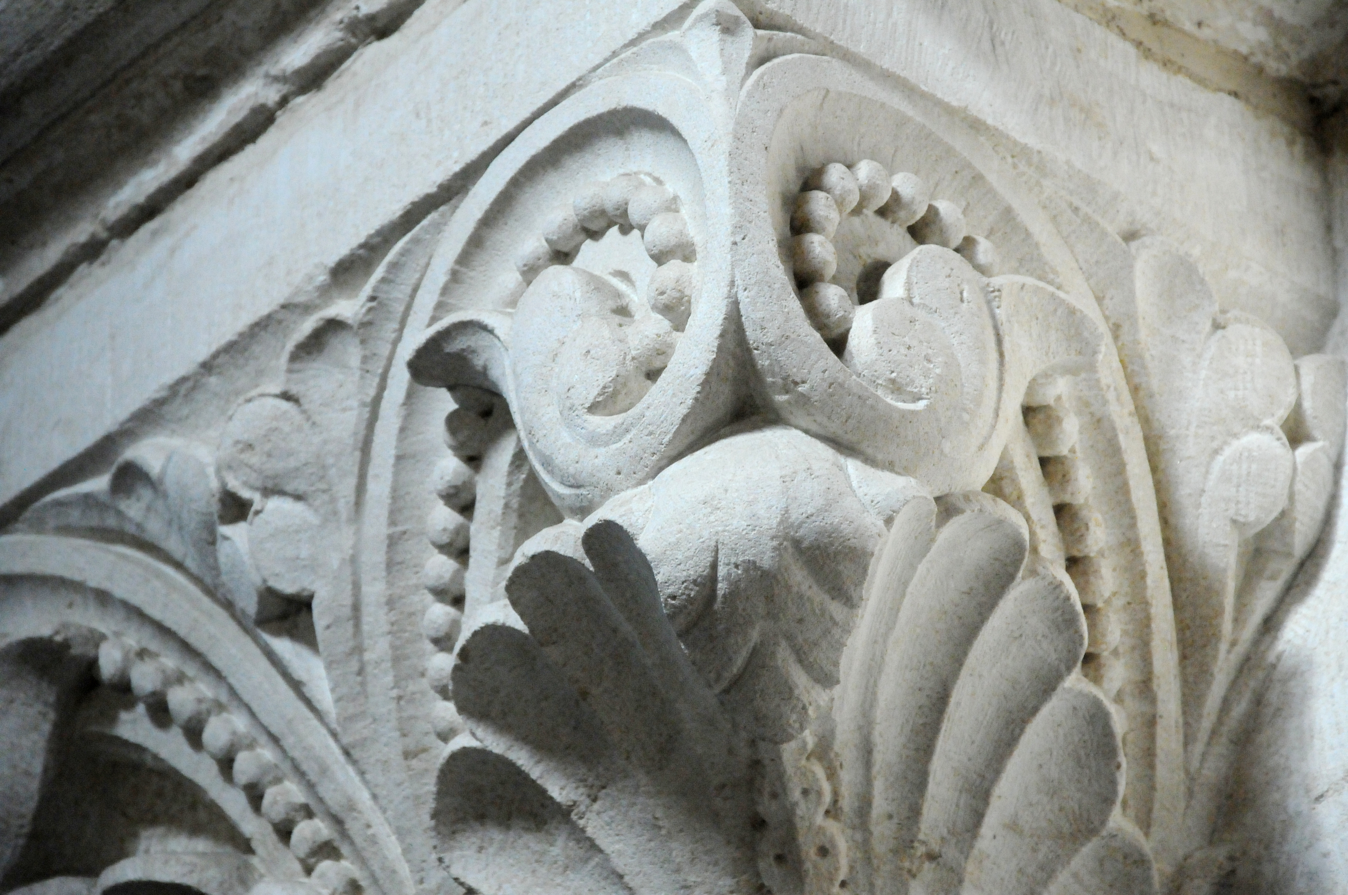 Capitel St. Florent Til Chatel, France Burgundy, cote d'or